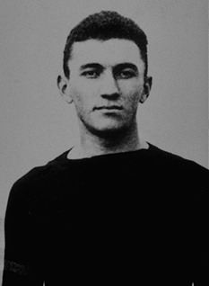 Gelbert playing in the early 1900's.